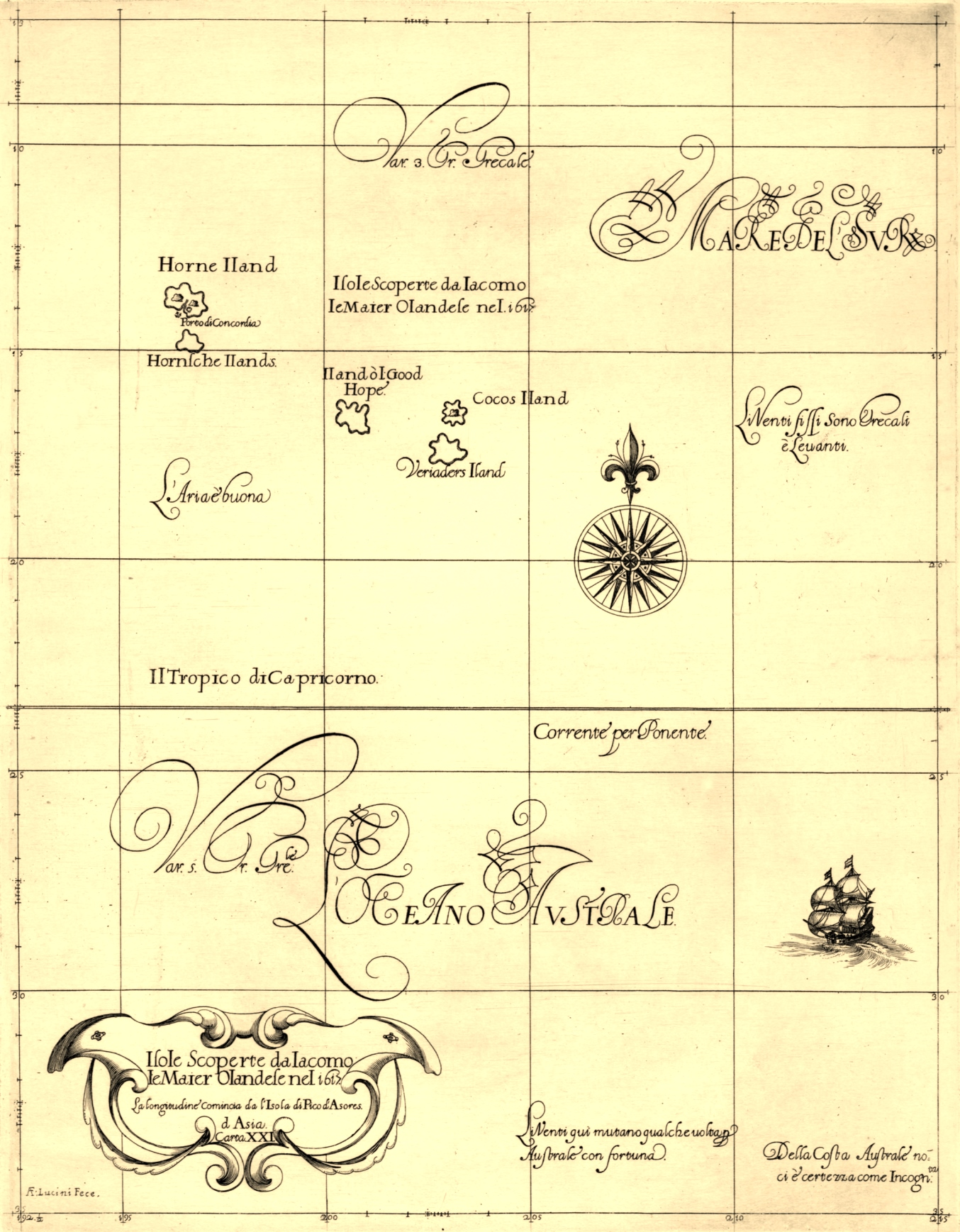 1646 map of Futuna & Alofi, Niuafoʻou and Niuatoputapu & Tafahi islands, discovered by Jacob Le Maire and Willem Schouten in 1616, from Robert Dudley 1646 Dell'Arcano del Mare maritime atlas. The name are those given by Le Maire and Schouten : Hoorn Iland (Futuna), Iland of Good Hope (Niuafoʻou), Cocos Iland (Tafahi) and Veriaders Iland ("Treacher's Island") (Niuatoputapu). Note the safe harbour place in Futuna named "Porto di concordia"